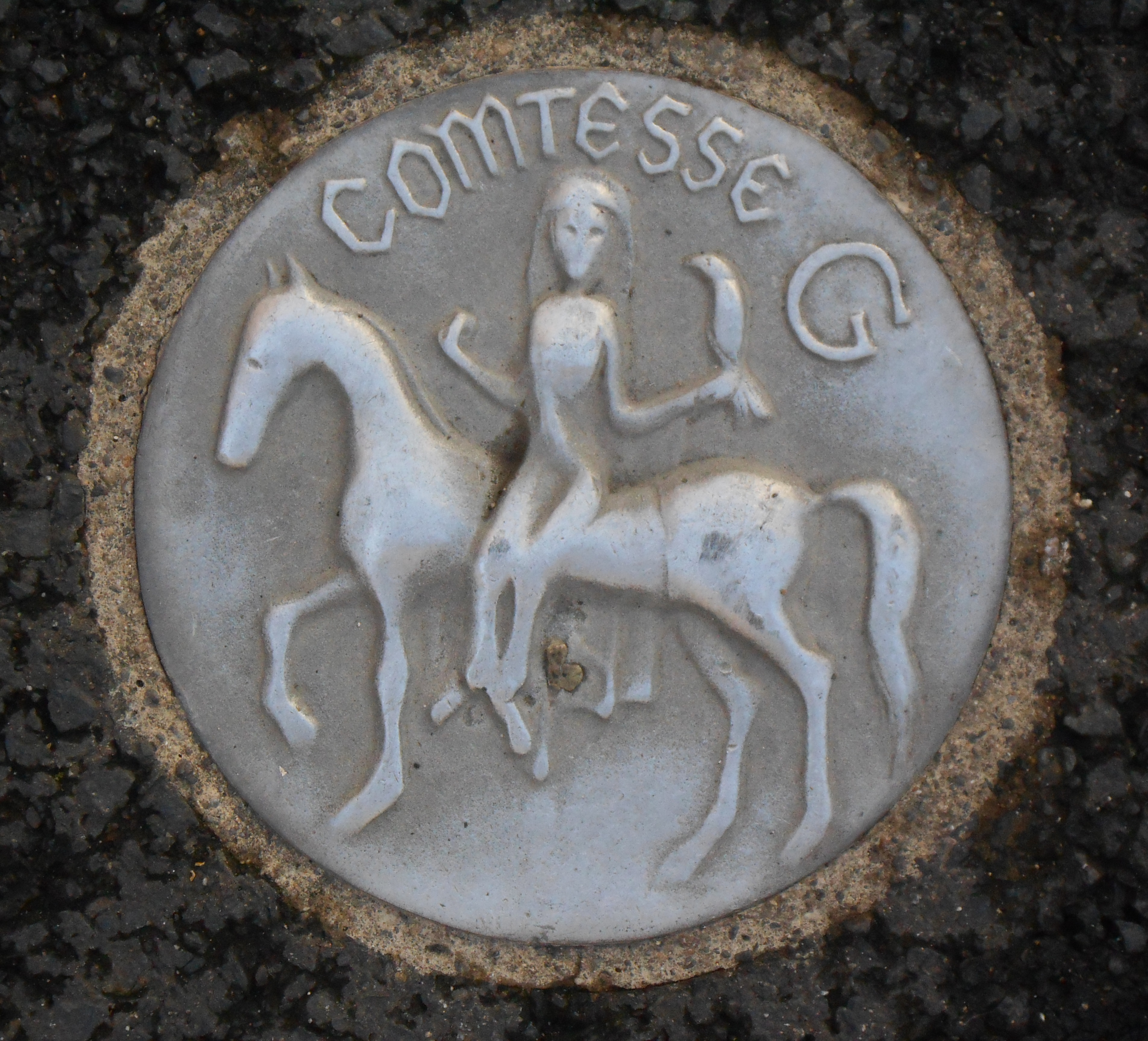 Countess G. Brayère. Montferrand, Auvergne Comtesse G. dite Brayère. Montferrand, Auvergne.